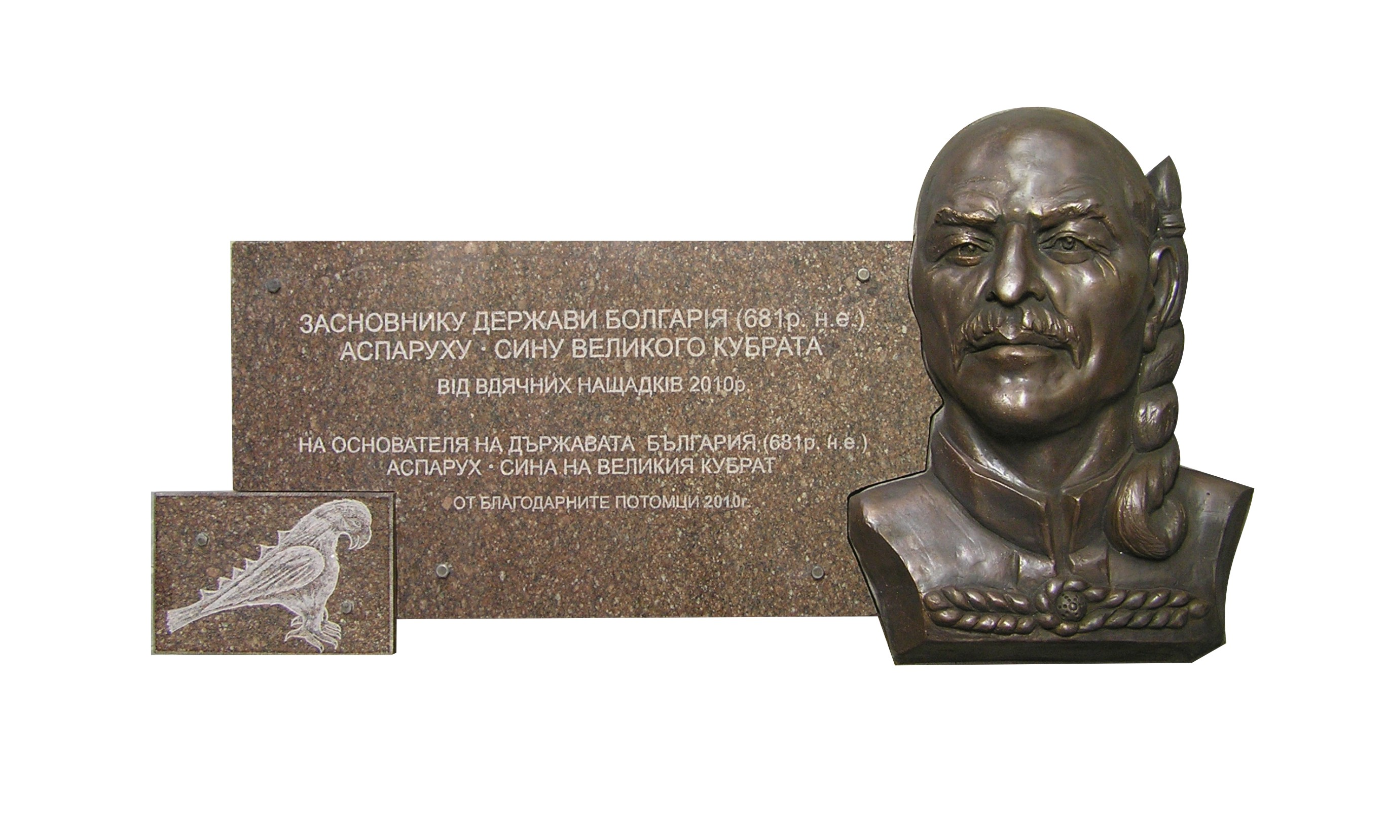 Memorial plate for Asparukh in Zaporozh'e. Opened in december, 2010. Profsojuzov square, 2.